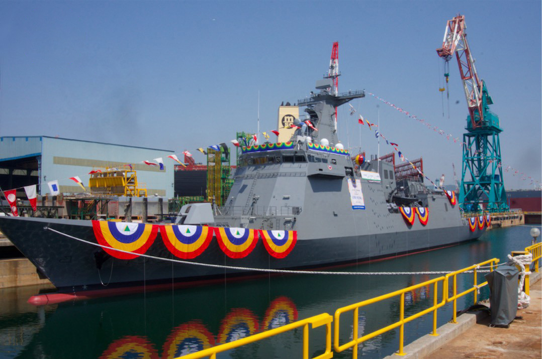 The BRP Jose Rizal during the launching ceremony at HHI Shipyard Ulsan, South Korea. Owned by Philippine Navy and it is public domain.